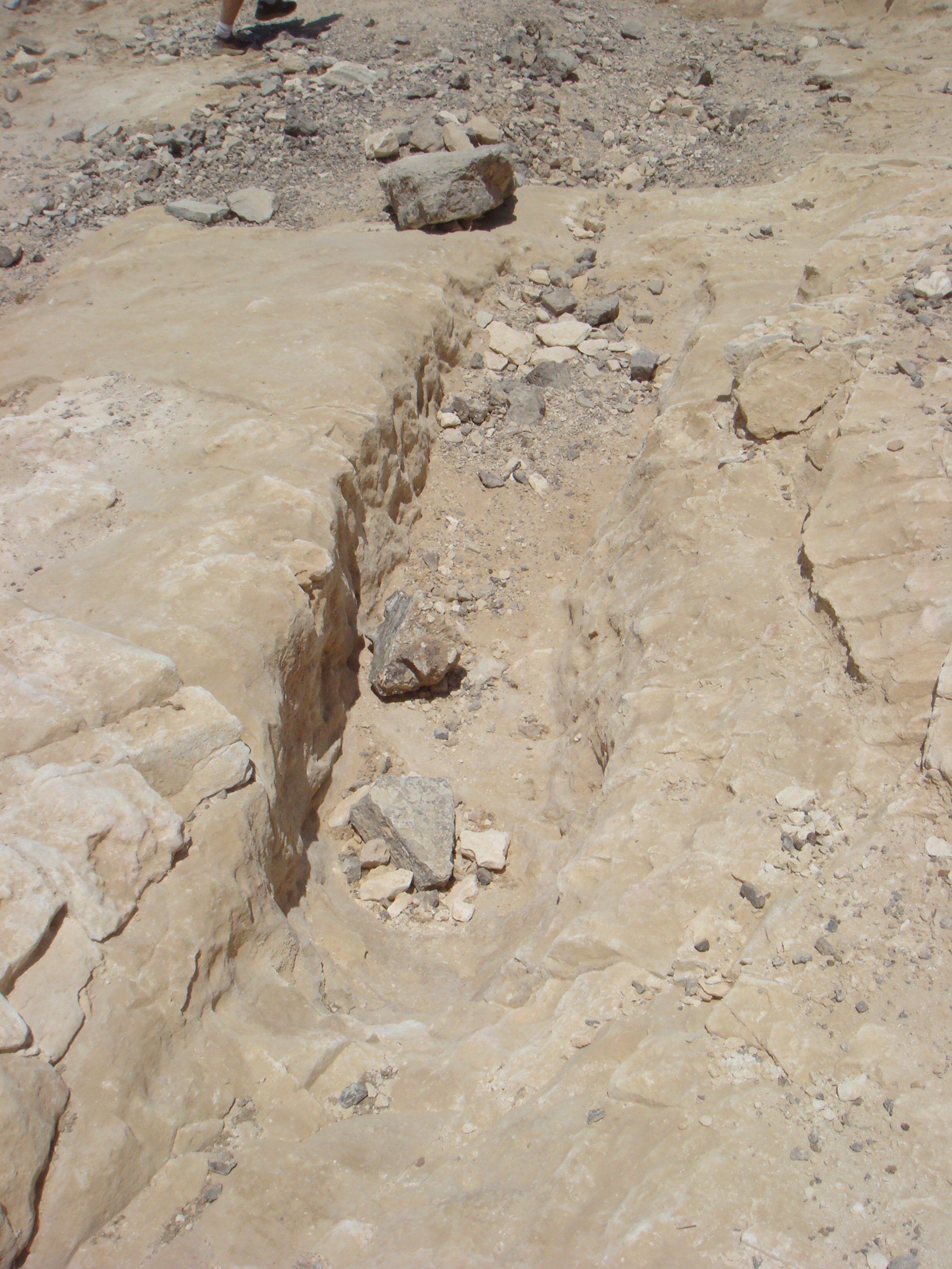 A water channel leading water to a cistern at Kina river bed, probably dating back to the Nabataean period. The river bed is overlooked by Horvat Uzza, an Israelite fortress siezed by the Edomites. Arad valley, Israel.